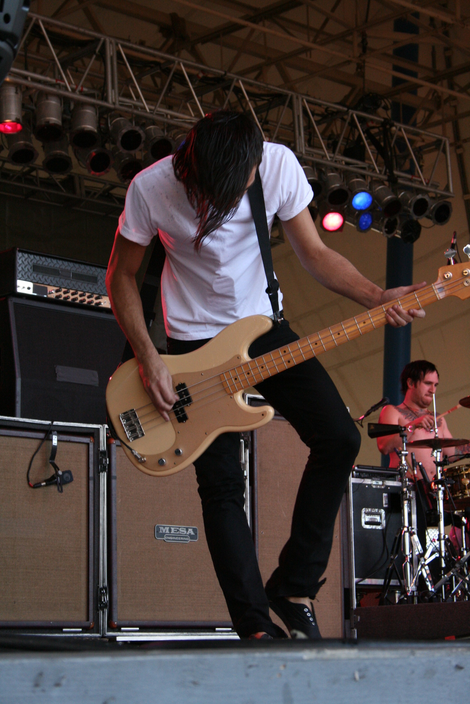 Red Jumpsuit Apparatus bassist Joey Westwood at Jacksonville in 2006